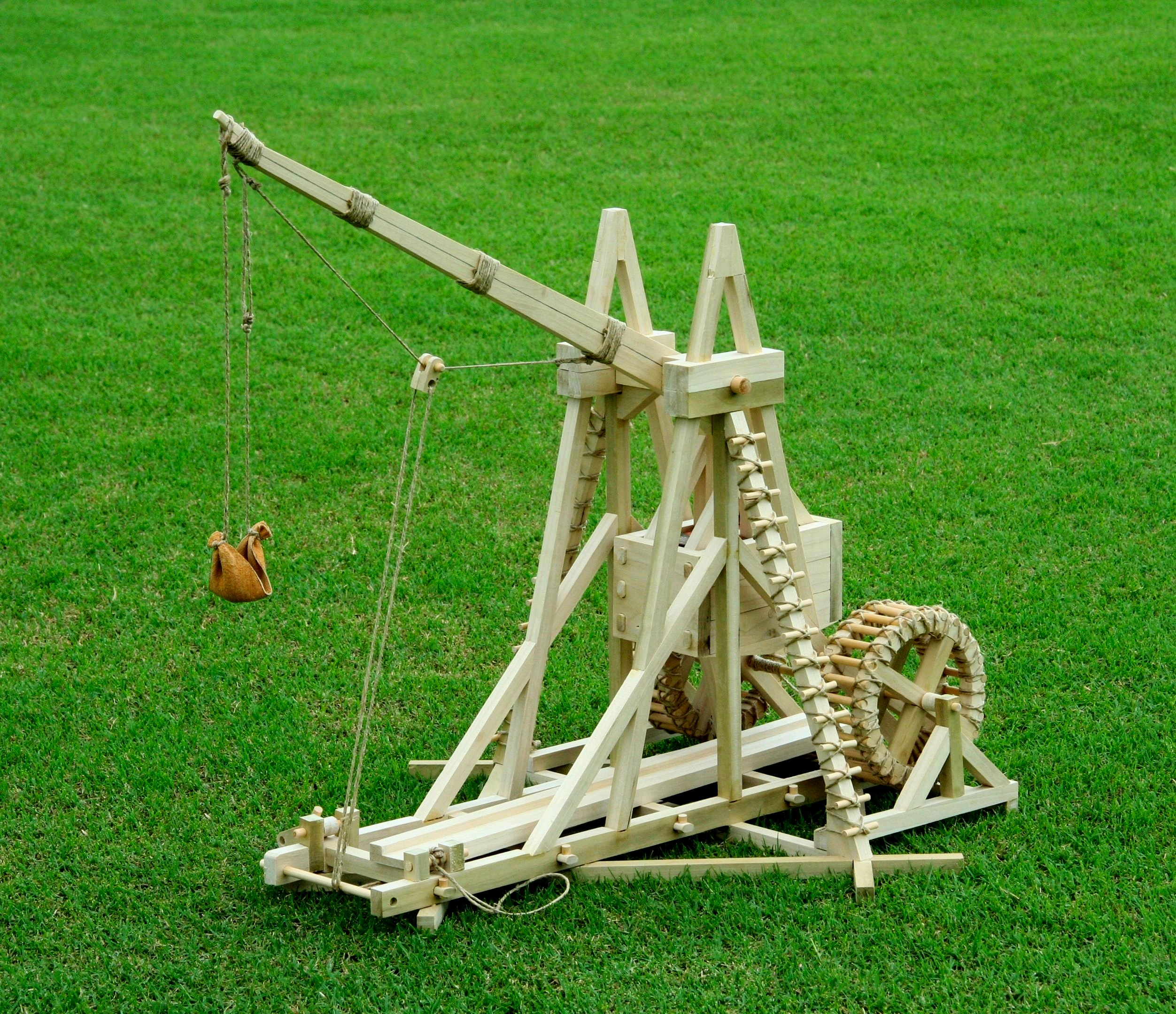 A highly detailed model of the Stirling Warwolf medieval trebuchet, made from a kit bought on-line.